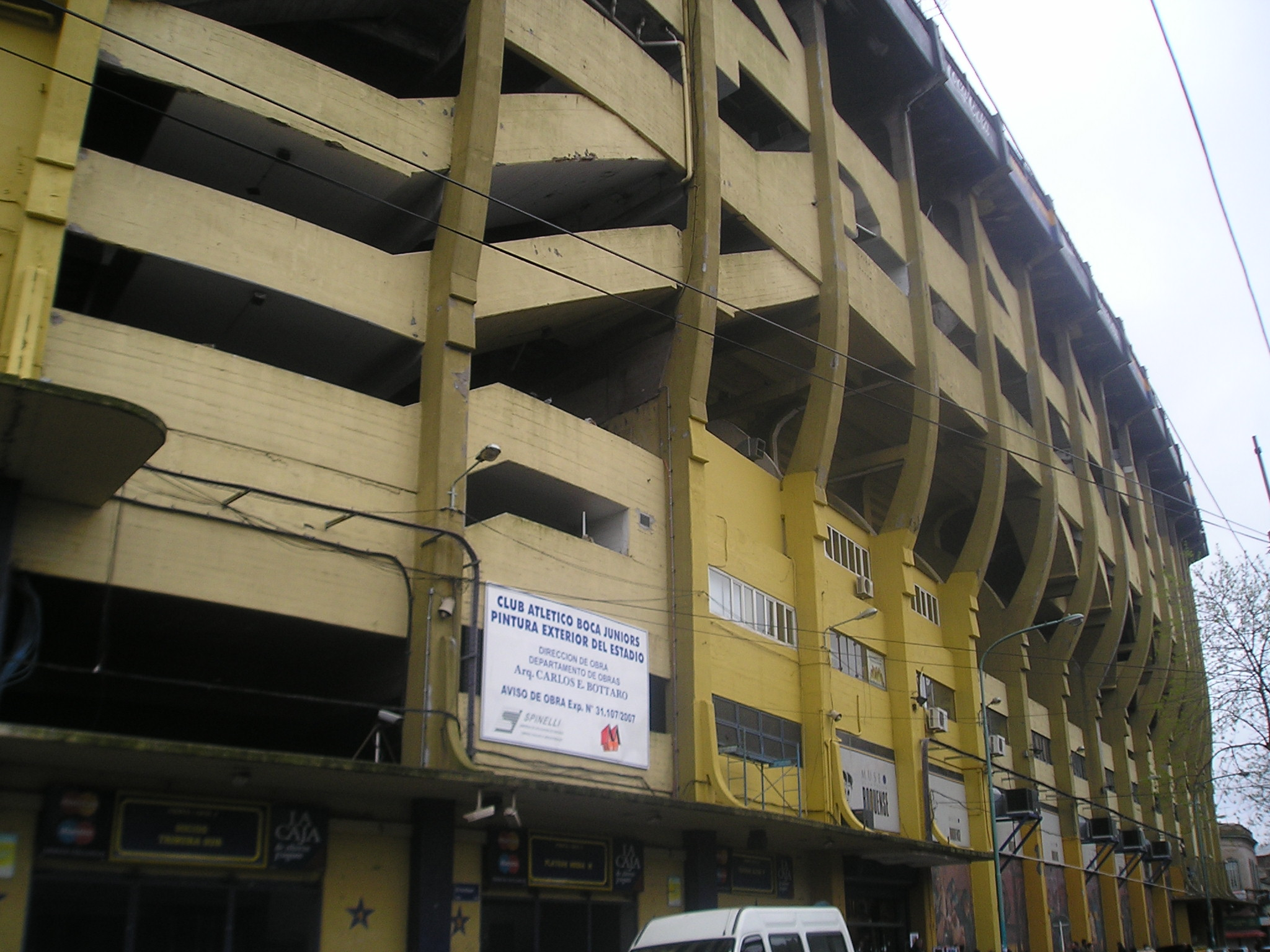 A view of La Bombonera staduim, La Boca, Buenos Aires, Argentina, from Calle Brandsen